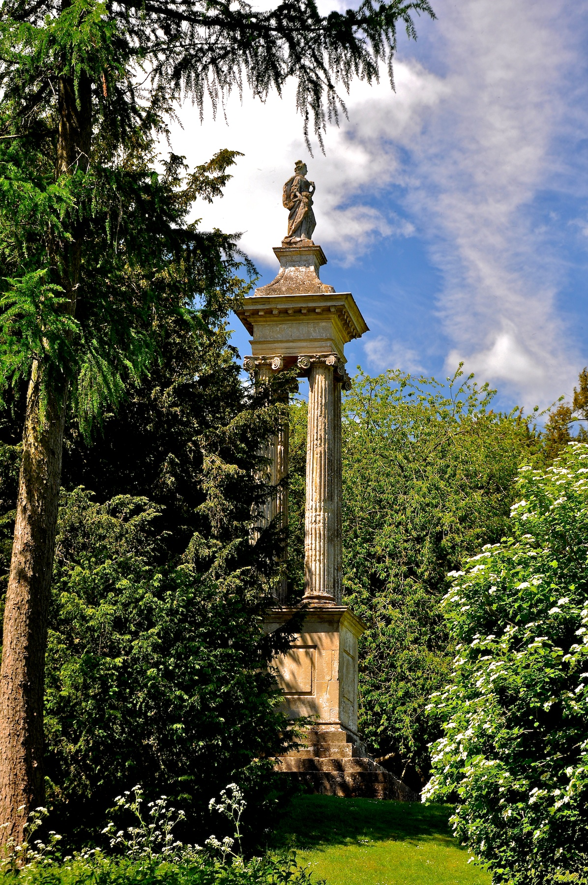 Queen Caroline's Monument at Stowe Park, Buckinghamshire